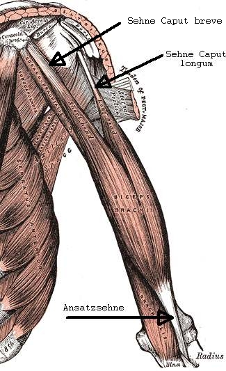 showing all three maintendons of bicepsmuscle, without lacertus fibrosus